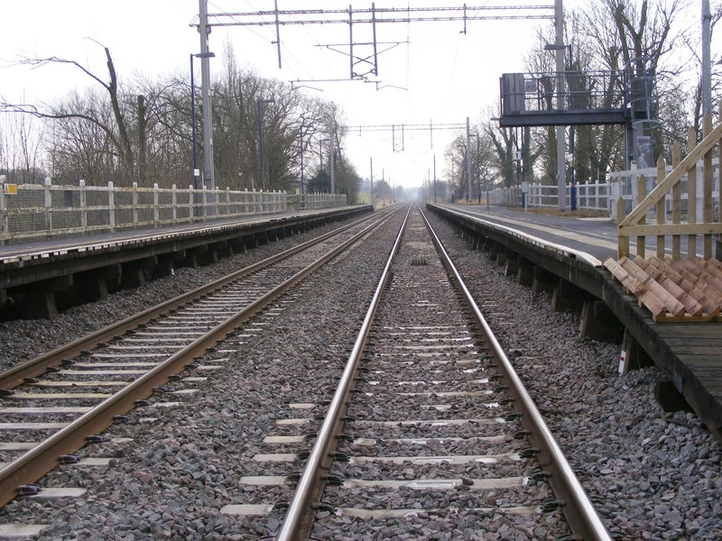 Closed Station The trains between Stone and Stoke on Trent no longer stop at Wedgwood Station.